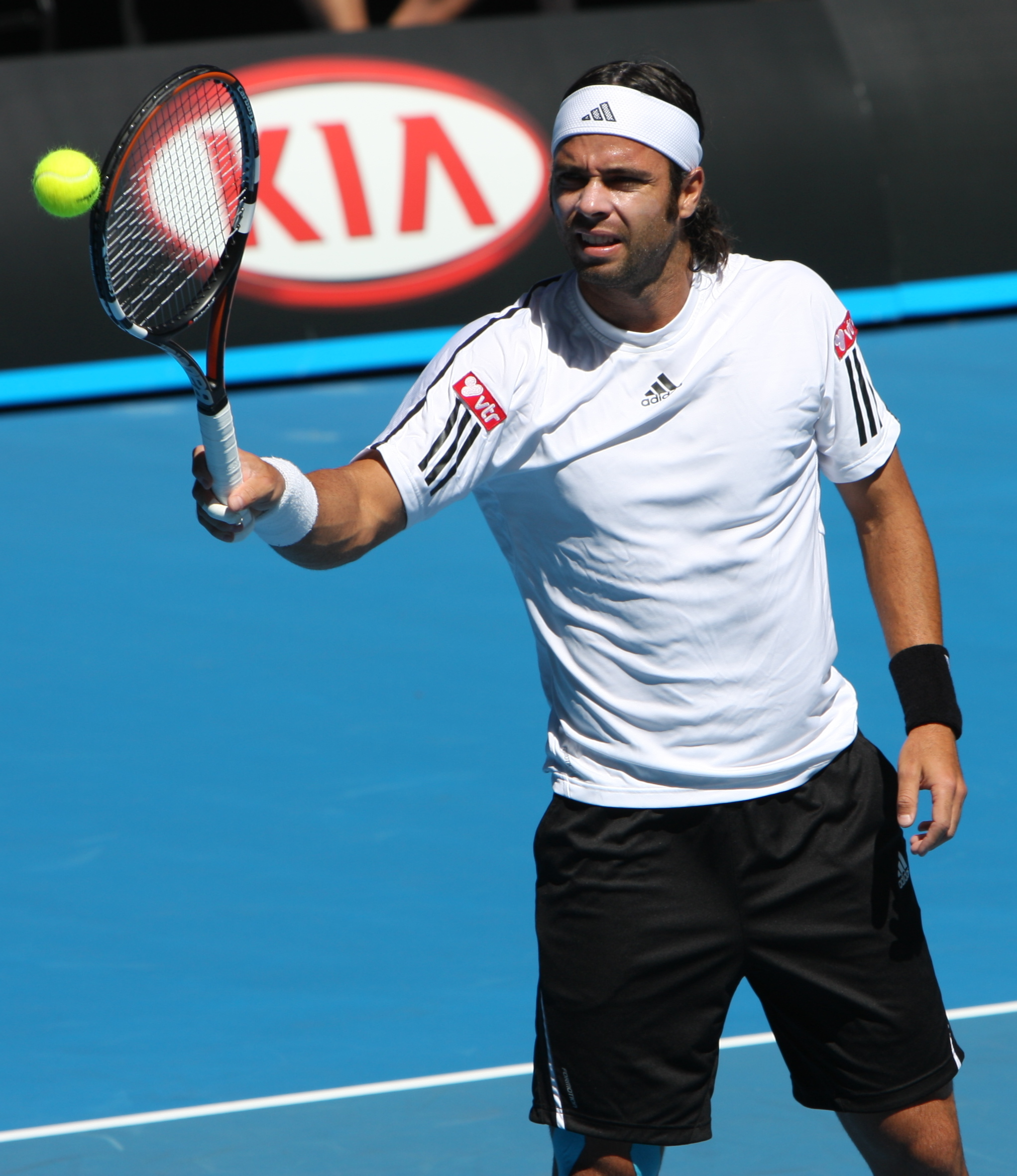 Fernando González at 2009 Australian Open, Melbourne, Australia.